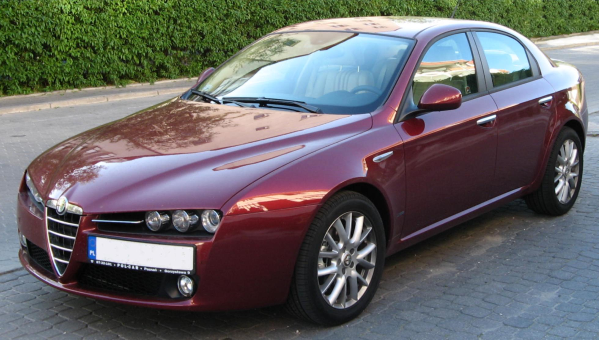 Alfa Romeo 159, sedan, burgundy, photographed in Warsaw